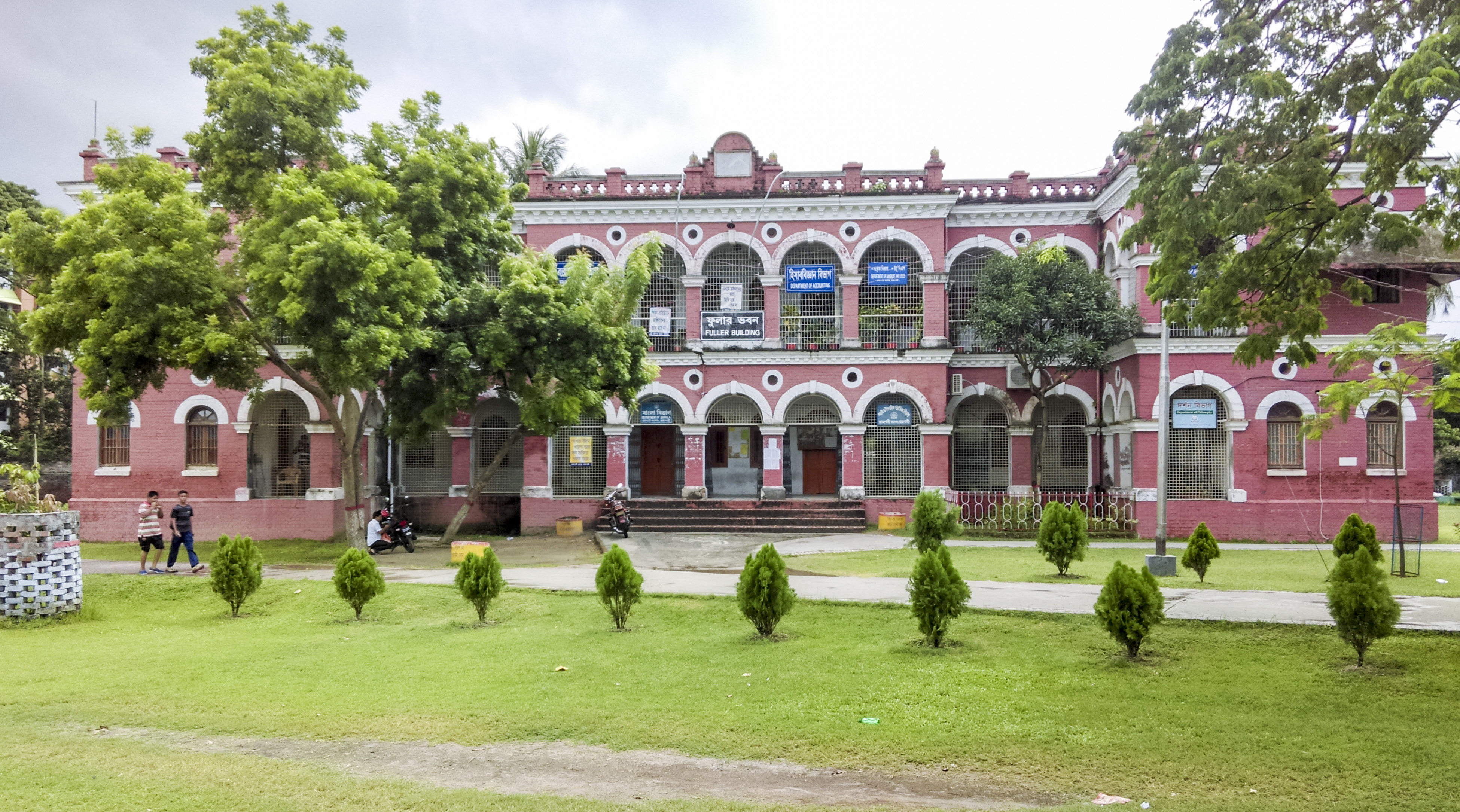 The Fuller Hostel or known as Fuller Bhaban, is a good example of British Indian colonial architecture. Established in 1909 AD.